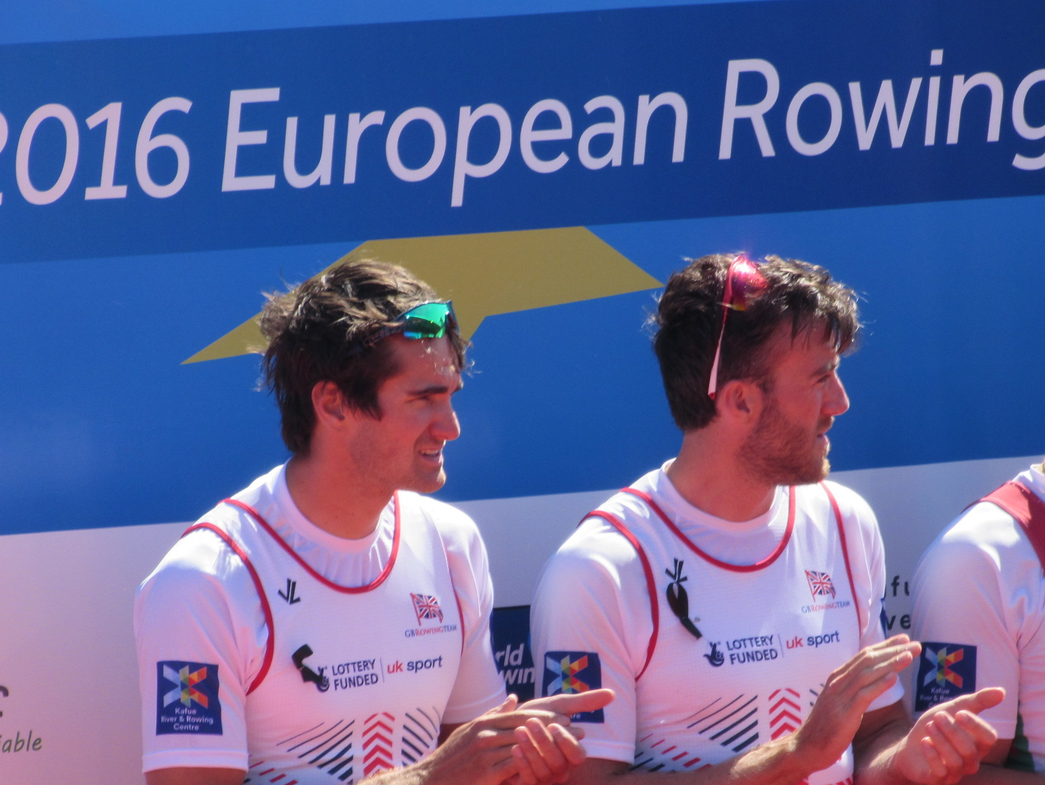 Alan Sinclair (right) and Stewart Innes (left) at the 2016 European Rowing Championships in Brandenburg an der Havel, Germany